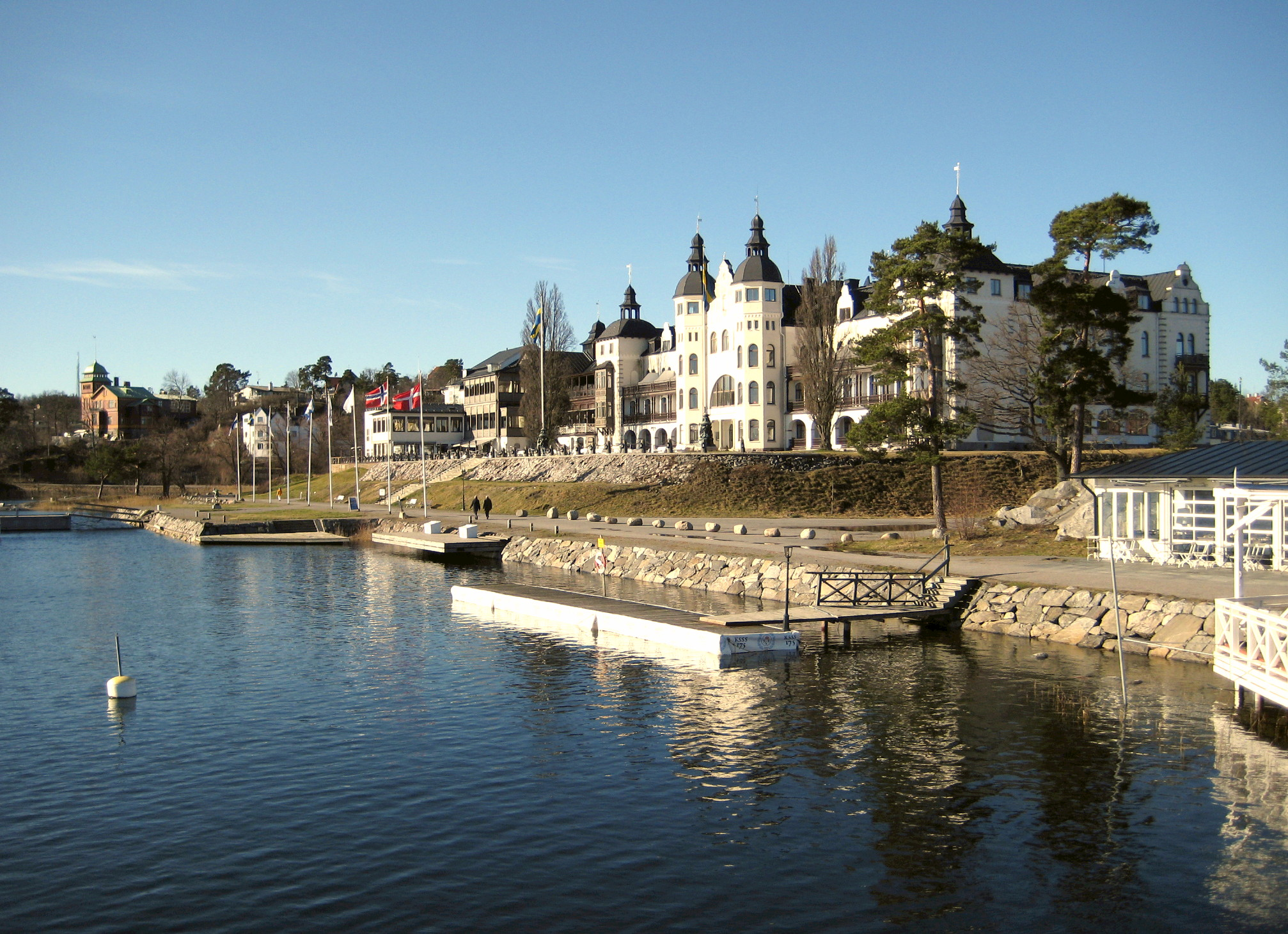 Grand Hotel Saltsjöbaden and seaside promenade (Saltsjöbaden, Nacka municipality, Sweden)